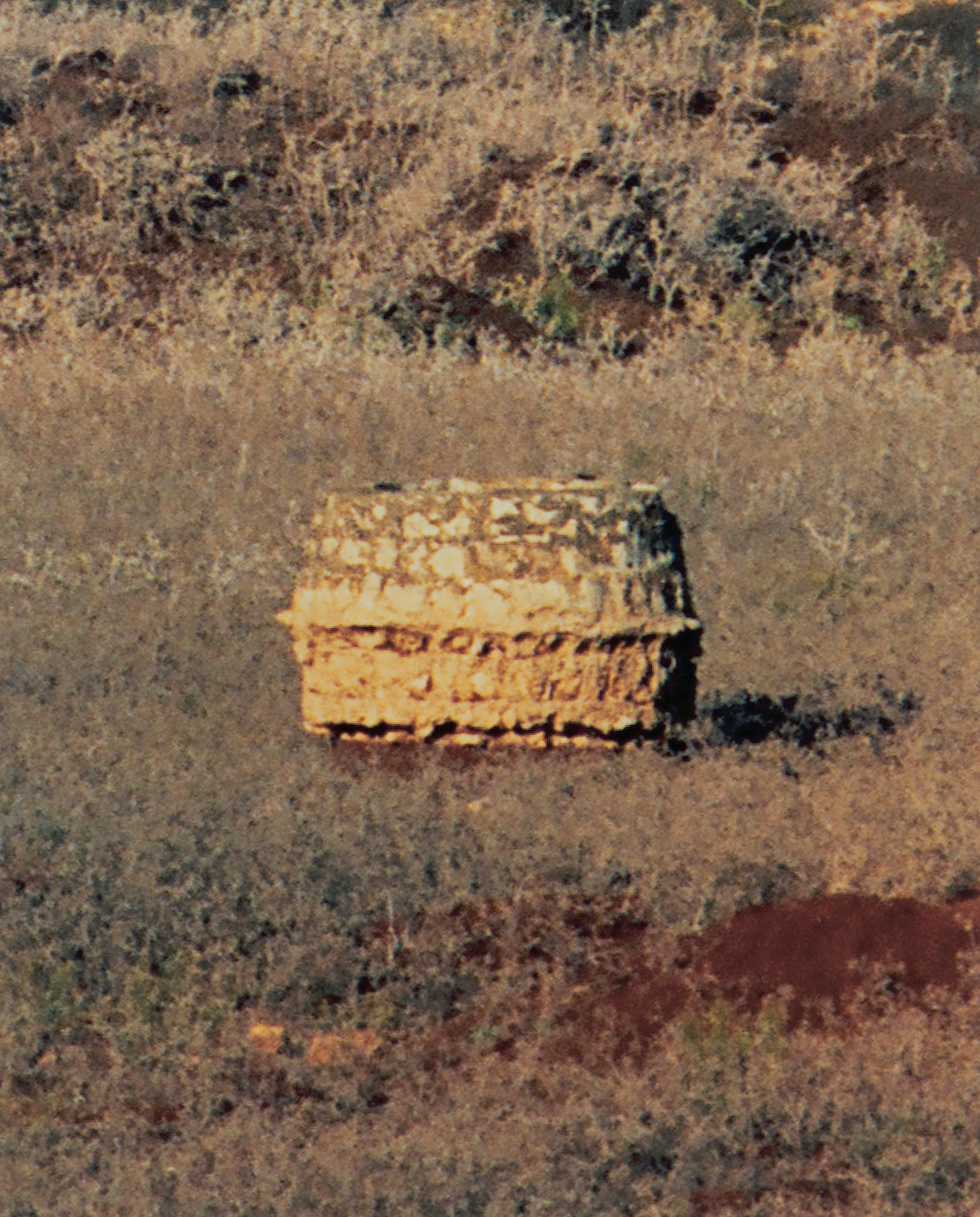 Stone at the border between Israel and South Lebanon. The different color layers make visible how much earth had been taken around.